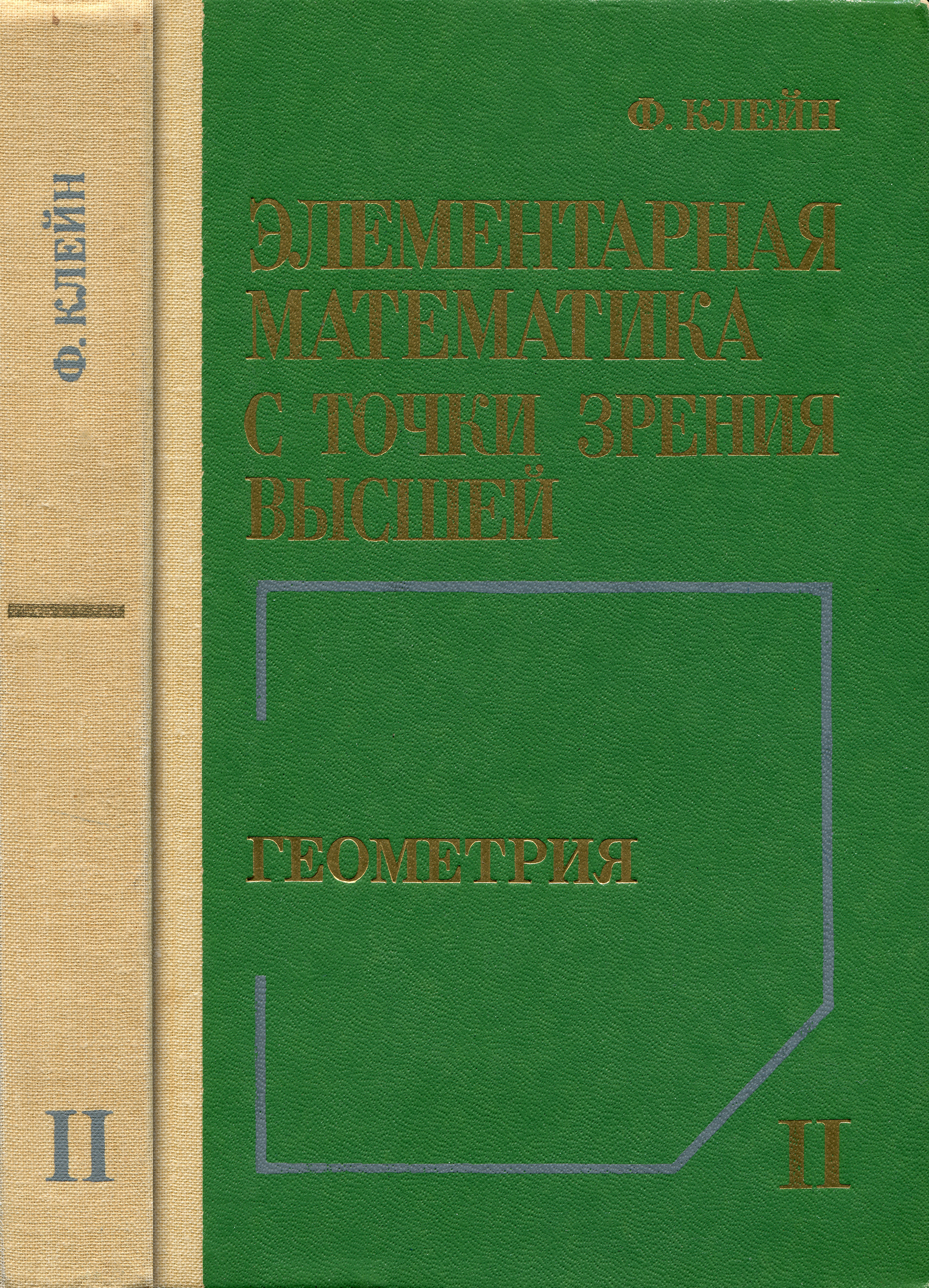 Book. Felix Klein.